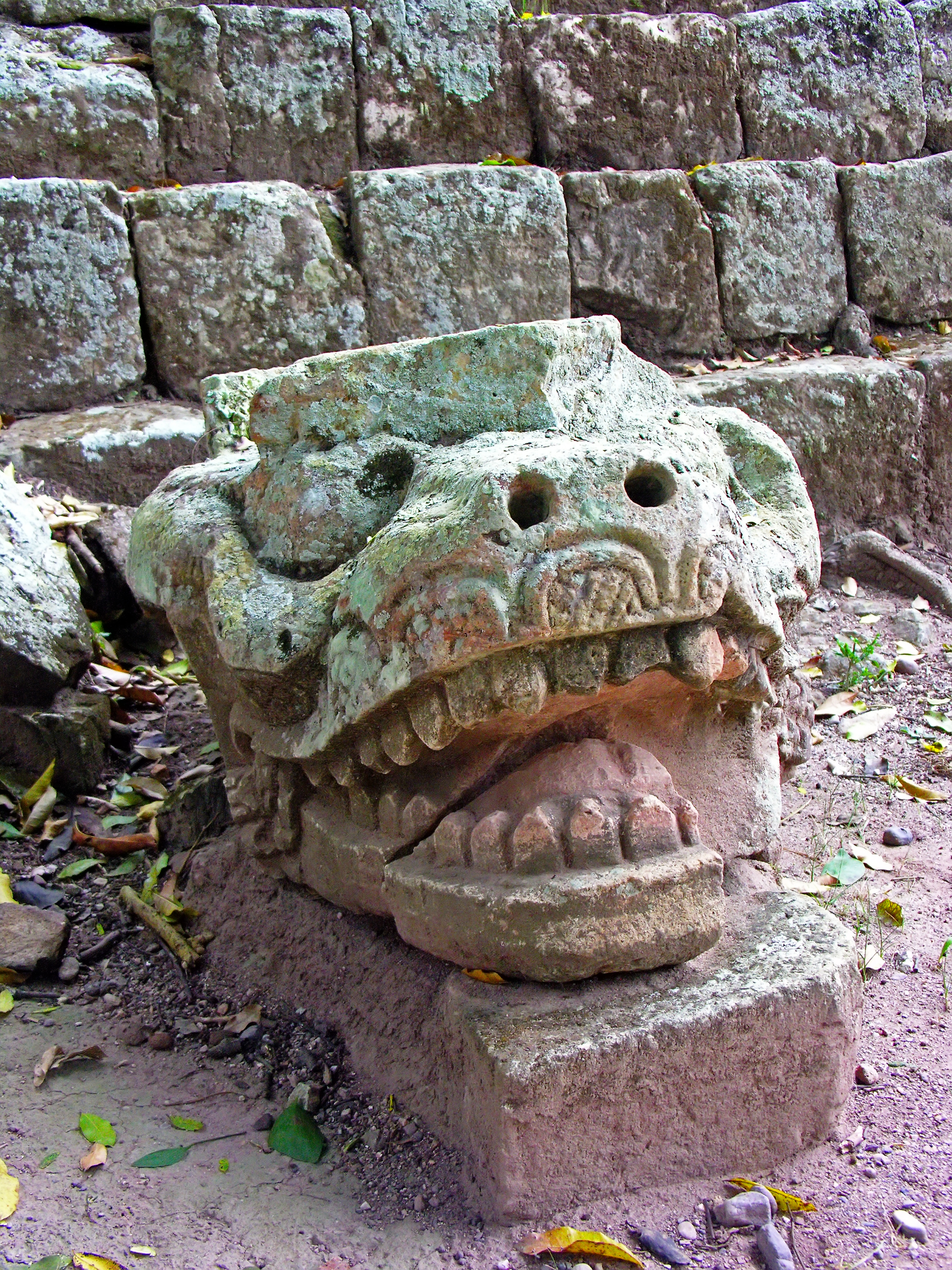 A stone head at the bottom of Temple 11, Copan, Honduras